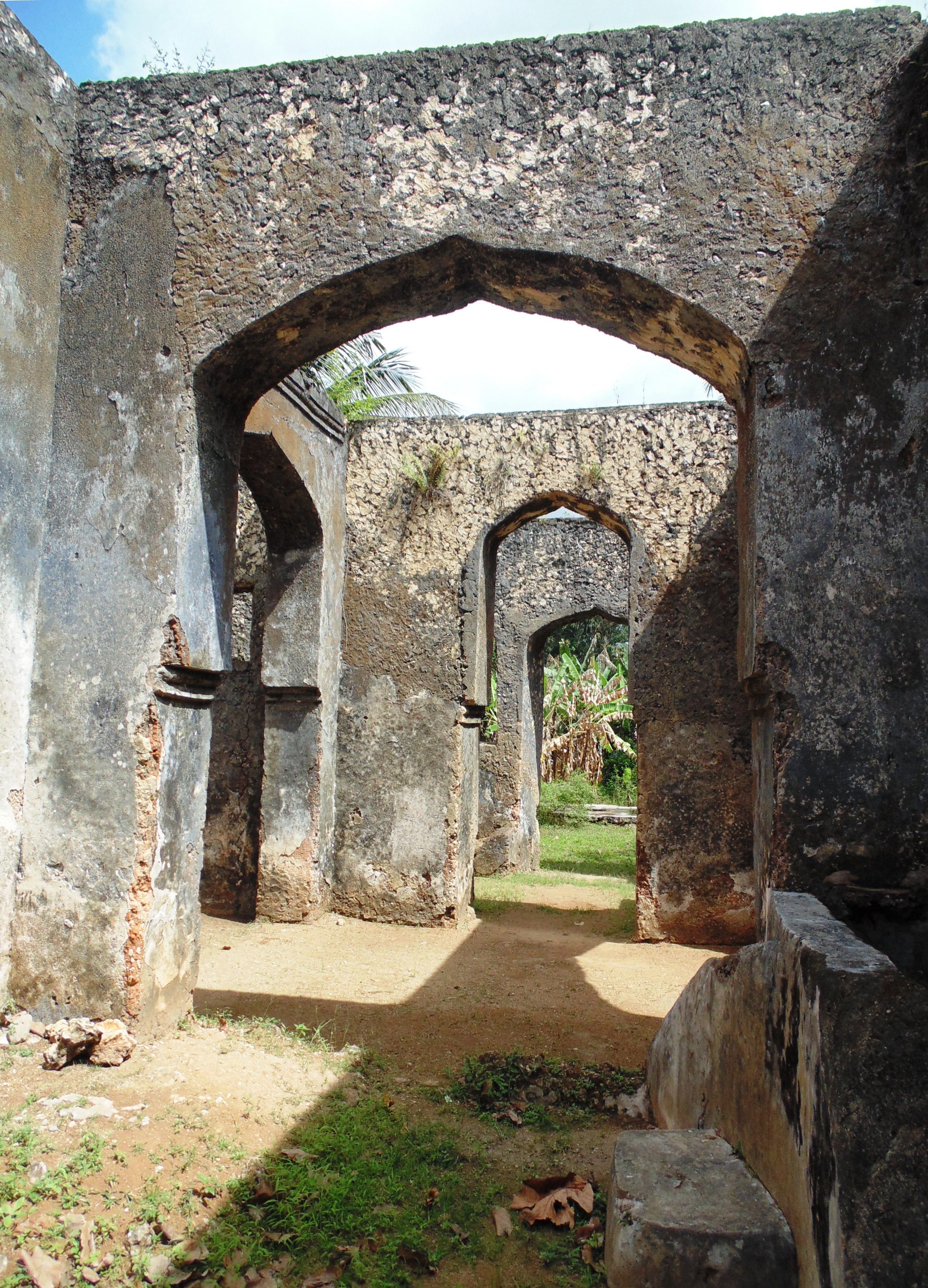 Ruins of the Dunga Palace